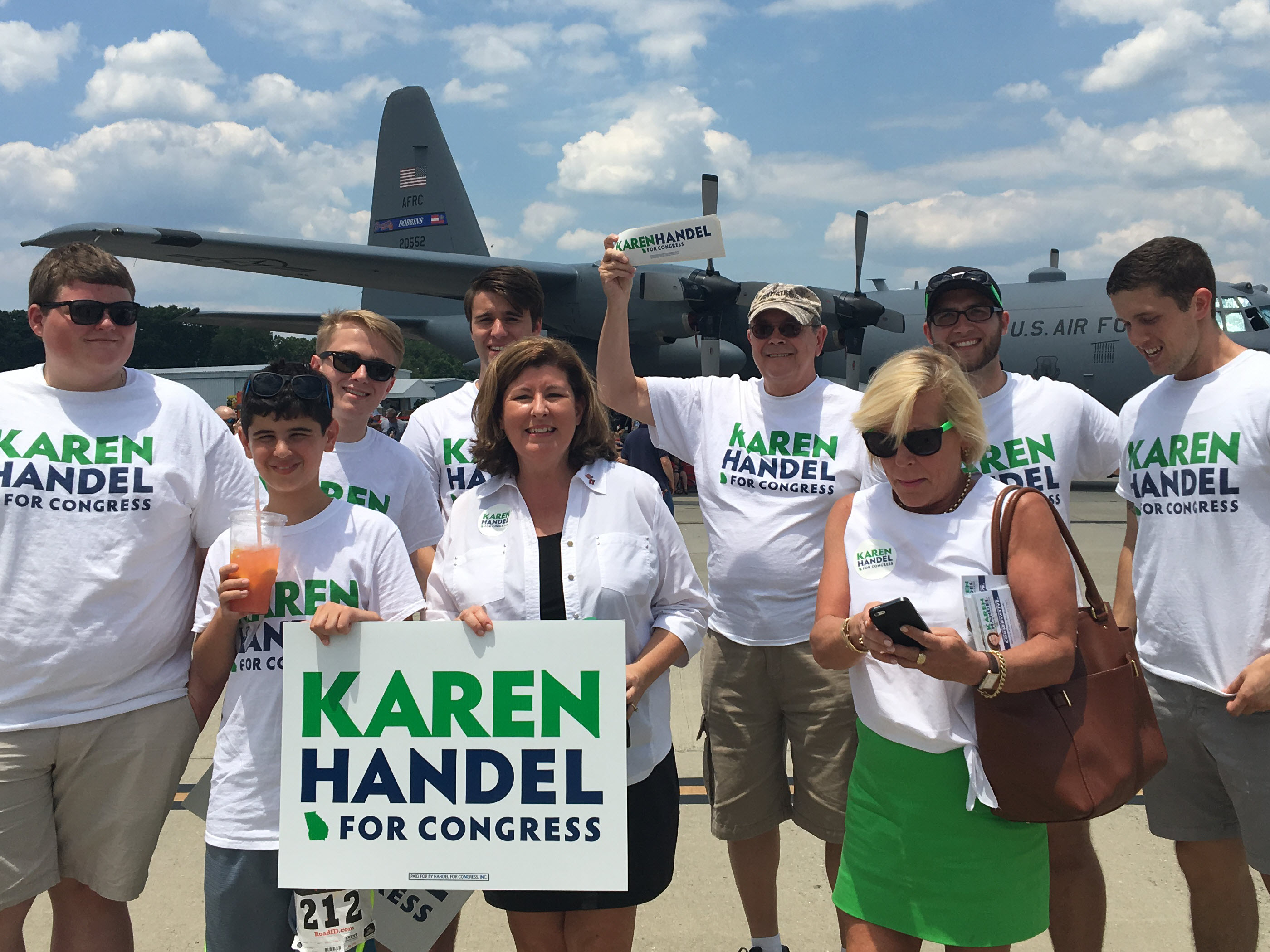 Karen Handel with supporters campaigning for Georgia's 6th congressional district at the DeKalb–Peachtree Airport annual airshow on 2017 June 10.